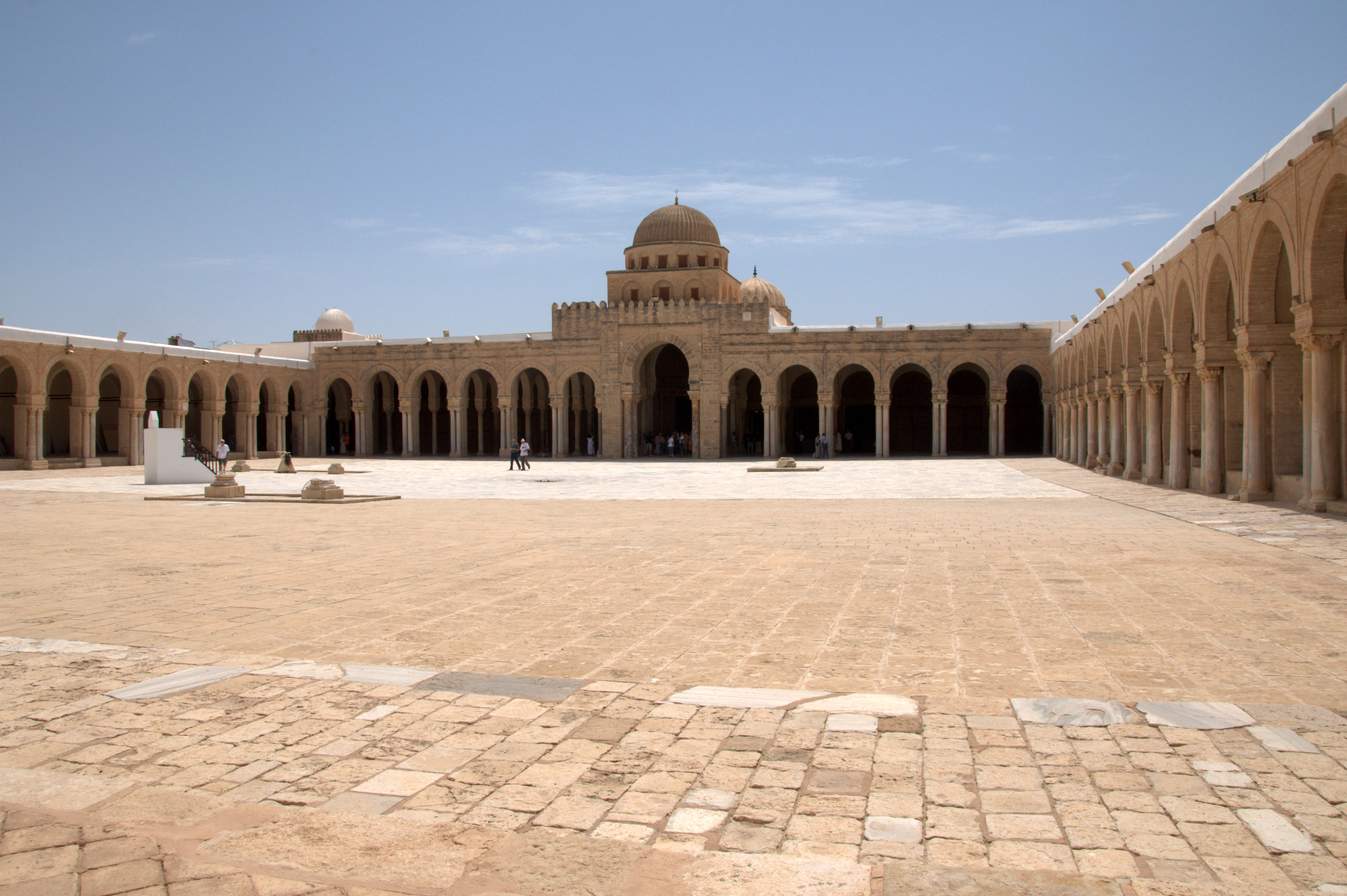 View of the huge marble courtyard of the Great Mosque of Kairouan formerly used to collect rain water in underground tanks (three wells in the centre)